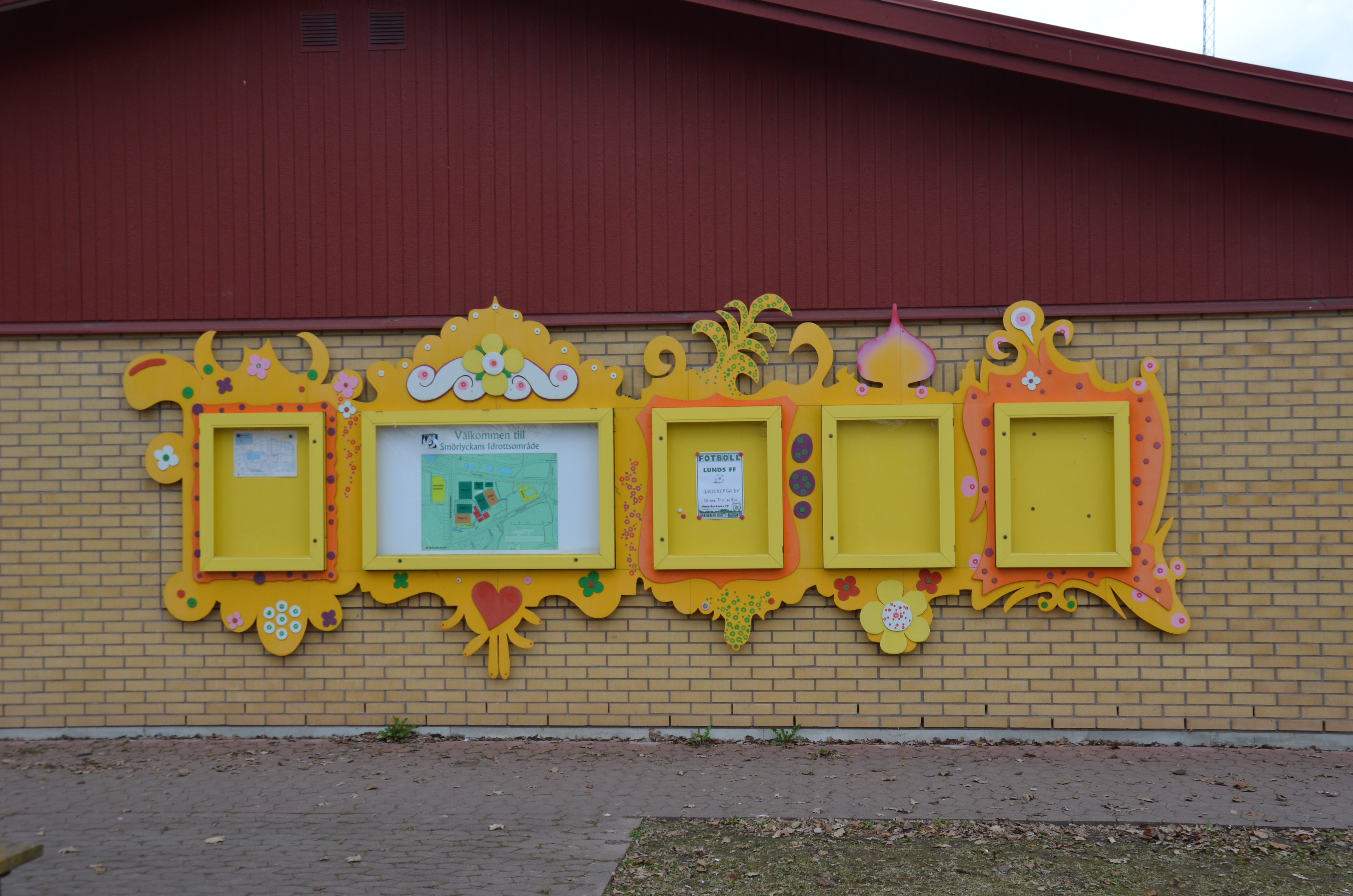 Anslagstavla, av Peter Johansson, Smörlyckans idrottsplats, Lund